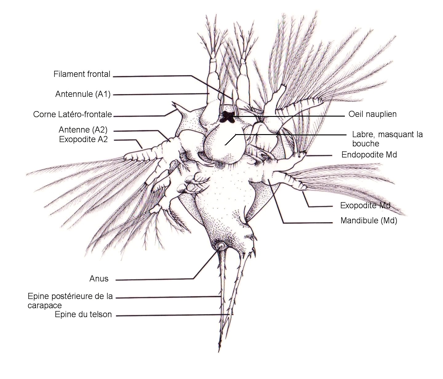 Drawing of a cirriped nauplius larva